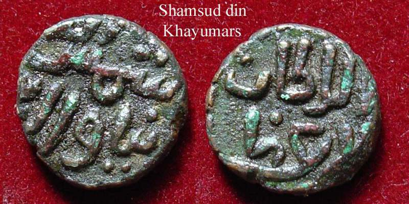 is a copper coin of Shamsuddin kaymars in my possession